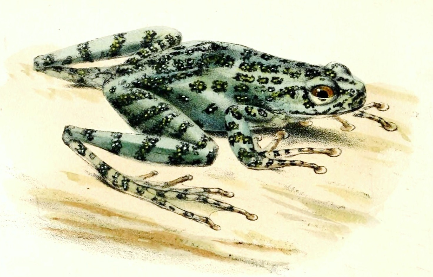 Polypedates formosus = Amolops formosus